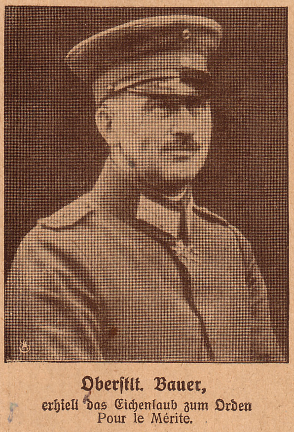 German Lieutenant-Colonel Max Bauer (WW1)